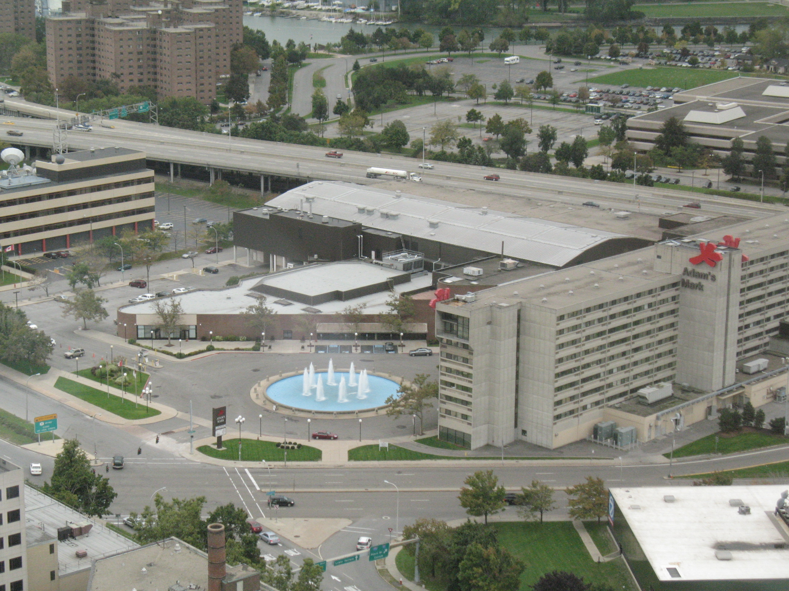 Taken from the observation deck of Buffalo City Hall, October 14, 2007